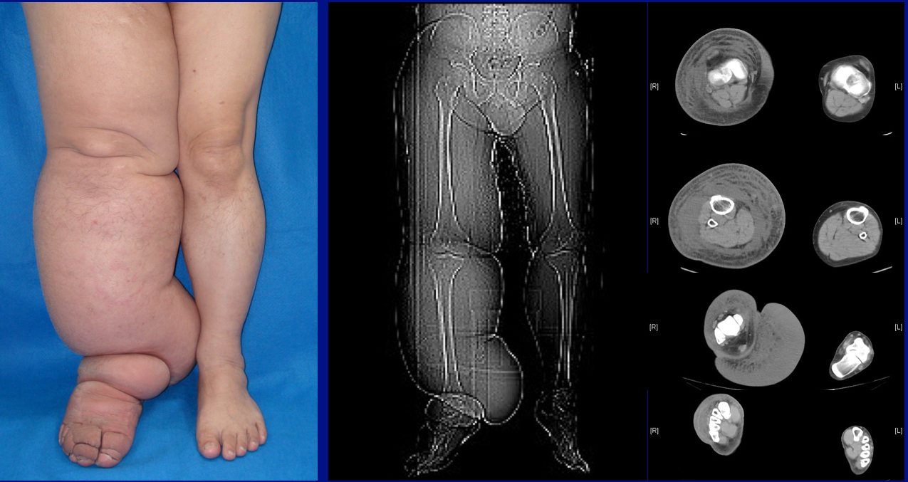 The 50 years old male with congenital lymphedema 50 years.